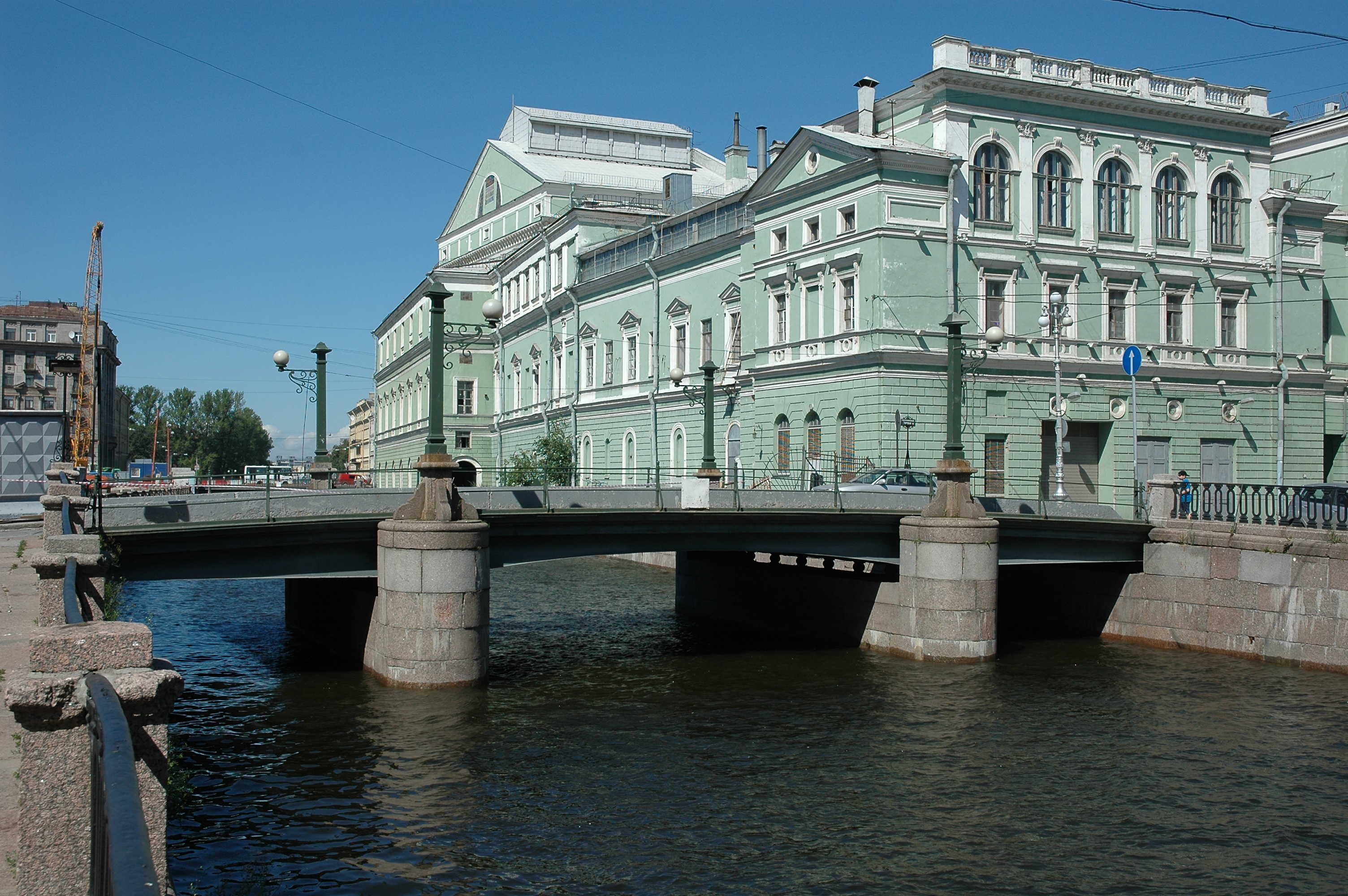 Torgovyi bridge across Kriukov canal in St Petersburg